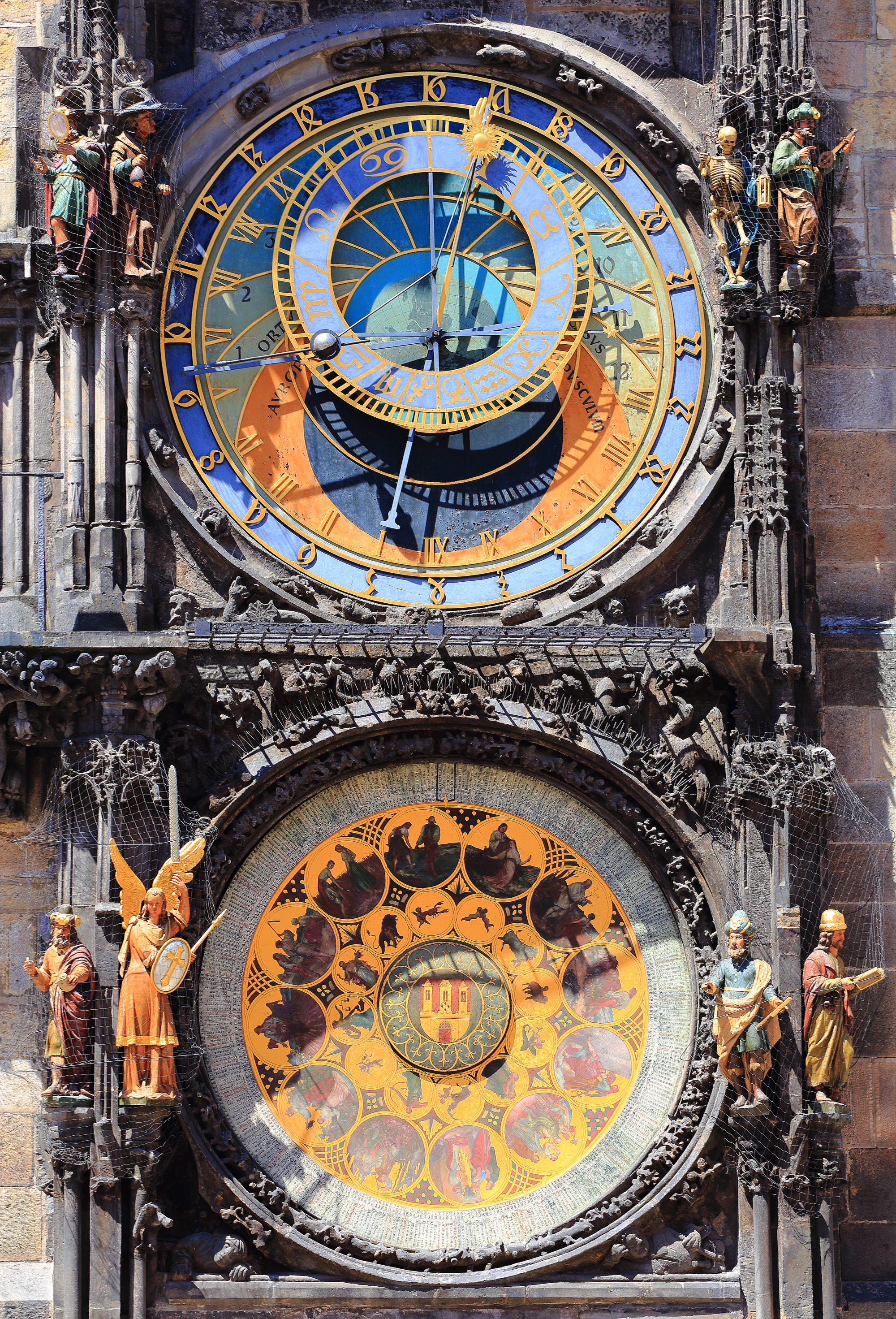 Prager Rathausuhr, Prague astronomical clock